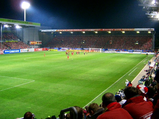 Stadion am Bruchweg